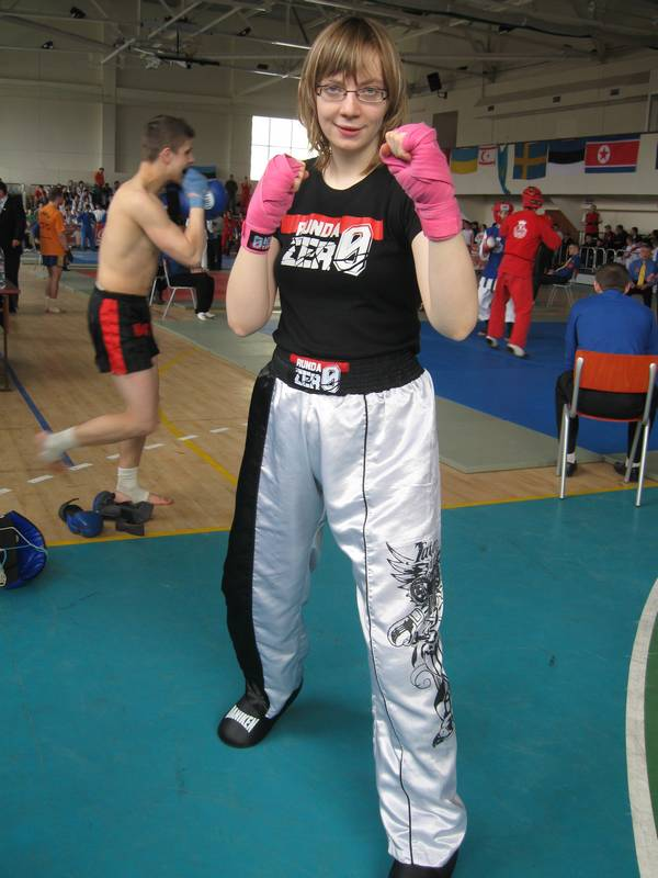 Barbara Stępniak before a fight